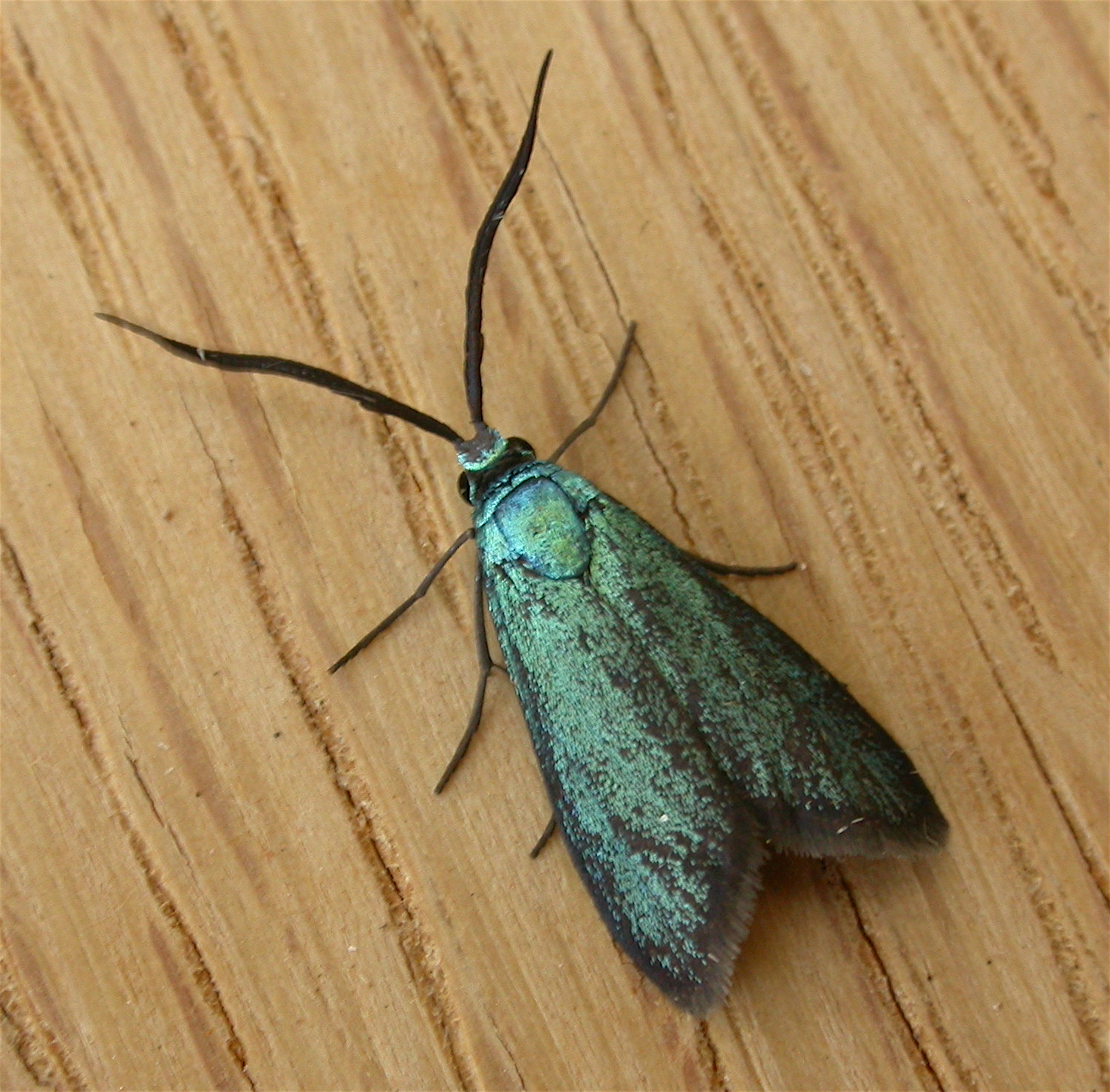 Pollanisus apicalis (Walker, 1854), to MV light, Aranda, ACT, 30 November/1 December 2008 Identification based on forewing-shape (and length).